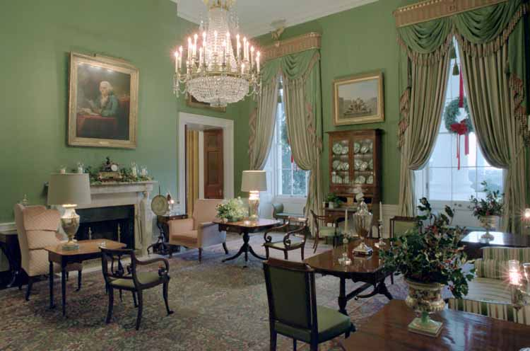 Green Room of the White House.